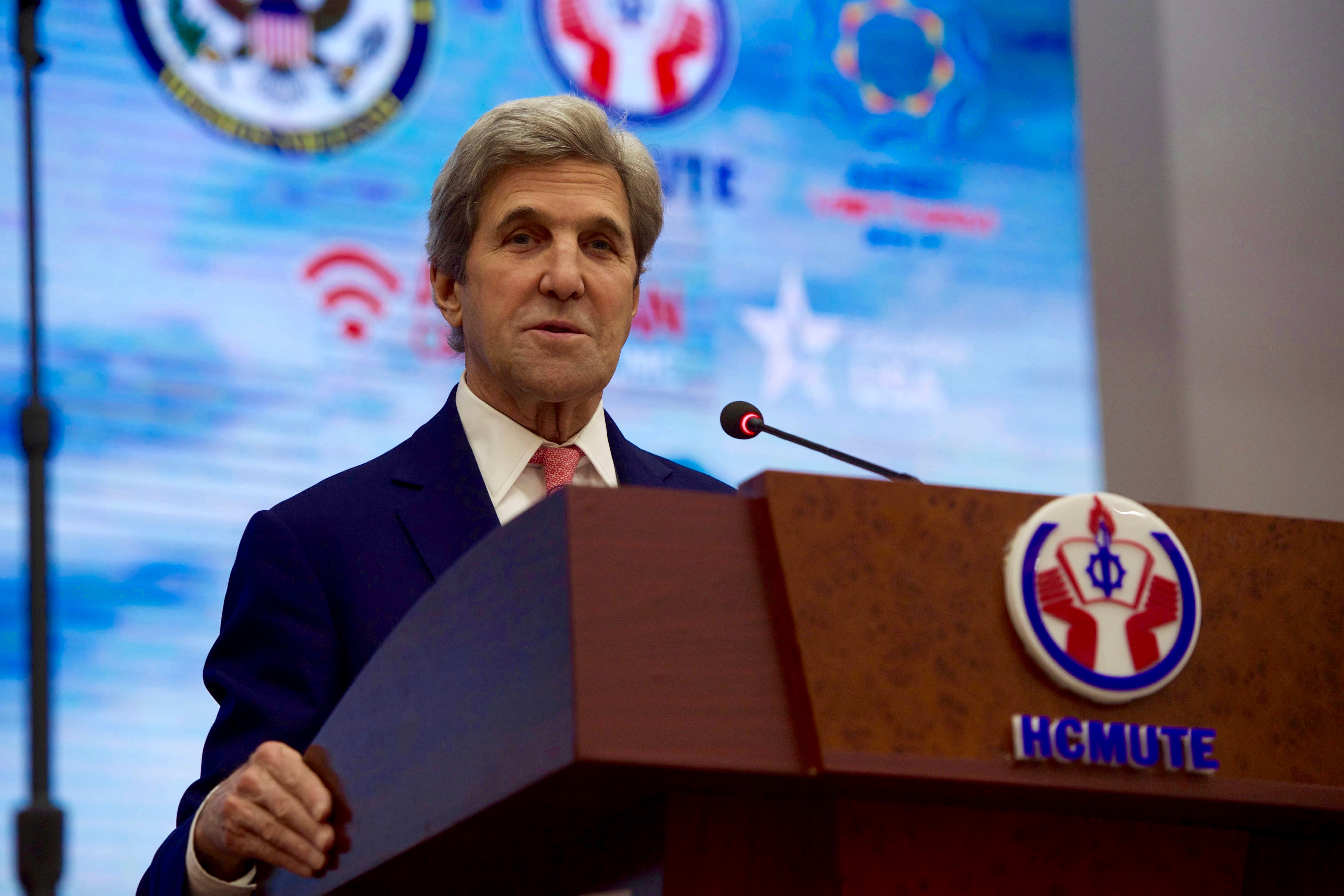 U.S. Secretary of State John Kerry delivers a speech about U.S.-Vietnamese relations at Ho Chi Minh University of Technology and Education in Ho Chi Minh City, Vietnam, on January 13, 2017, during the Secretary's final trip abroad. [State Department photo/ Public Domain]